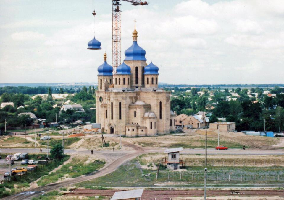 Holy Trinity Church